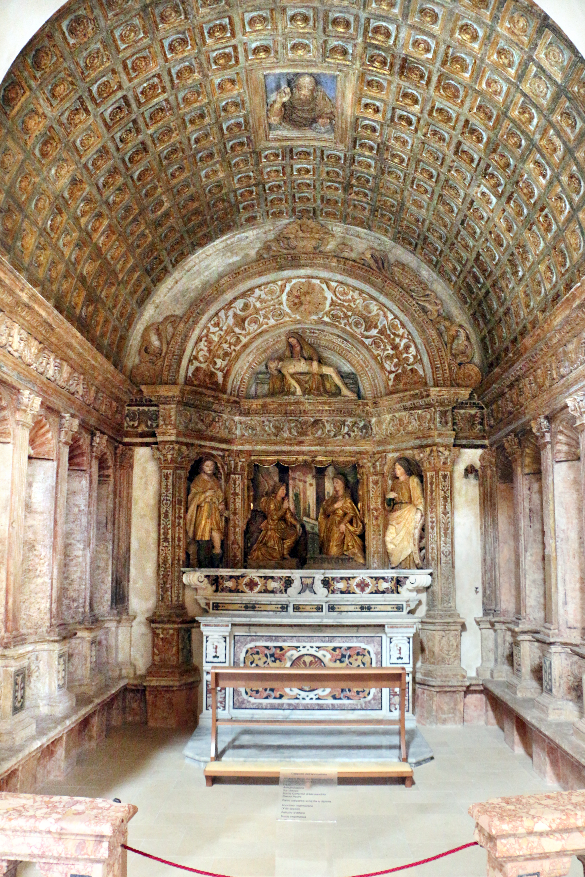 Cathedral (Matera)